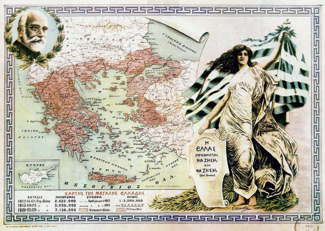 Greece in the Treaty of Sèvres